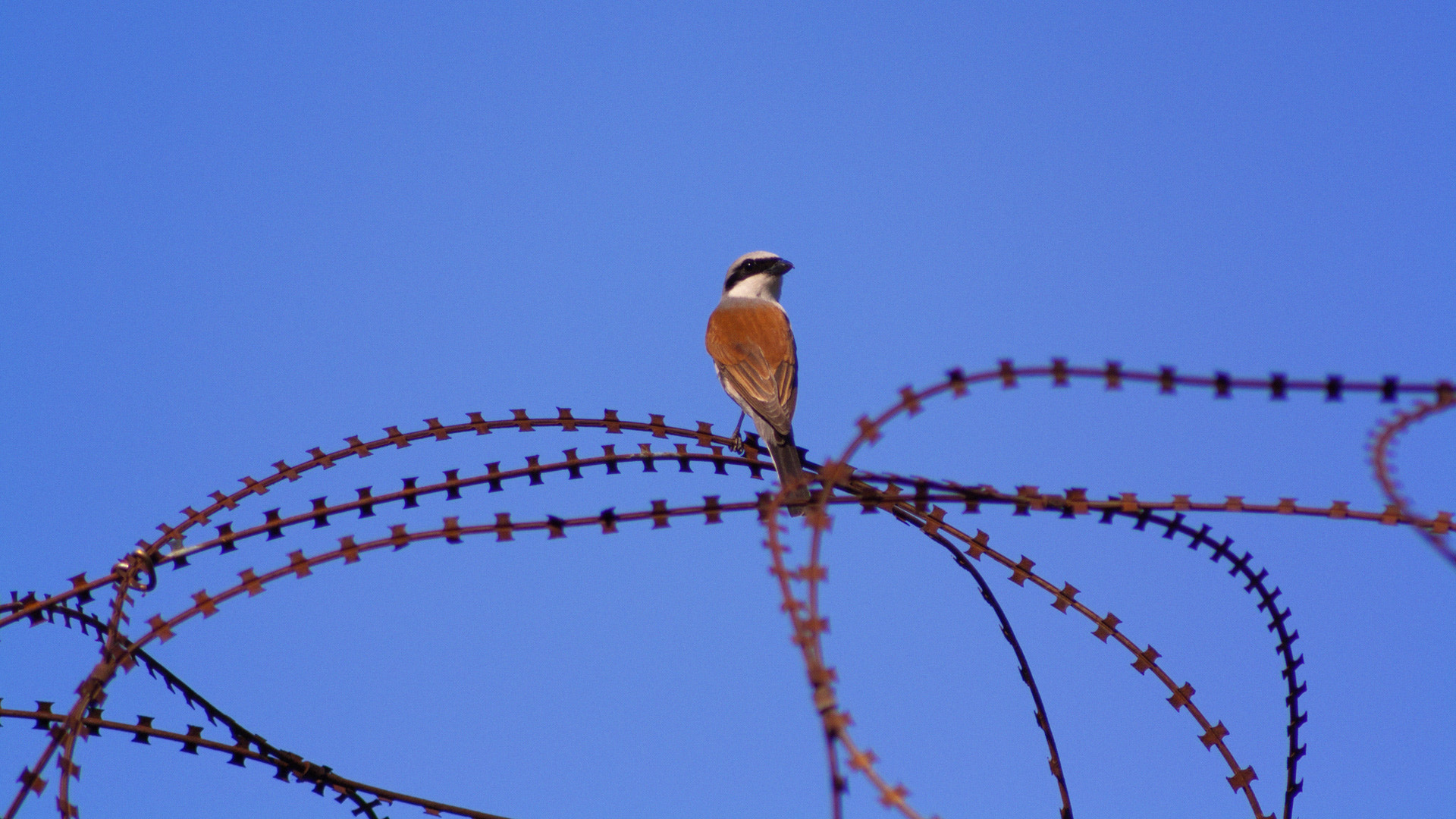 500px provided description: More: [#Bird ,#Vogel ,#Barbwire ,#Stacheldraht]